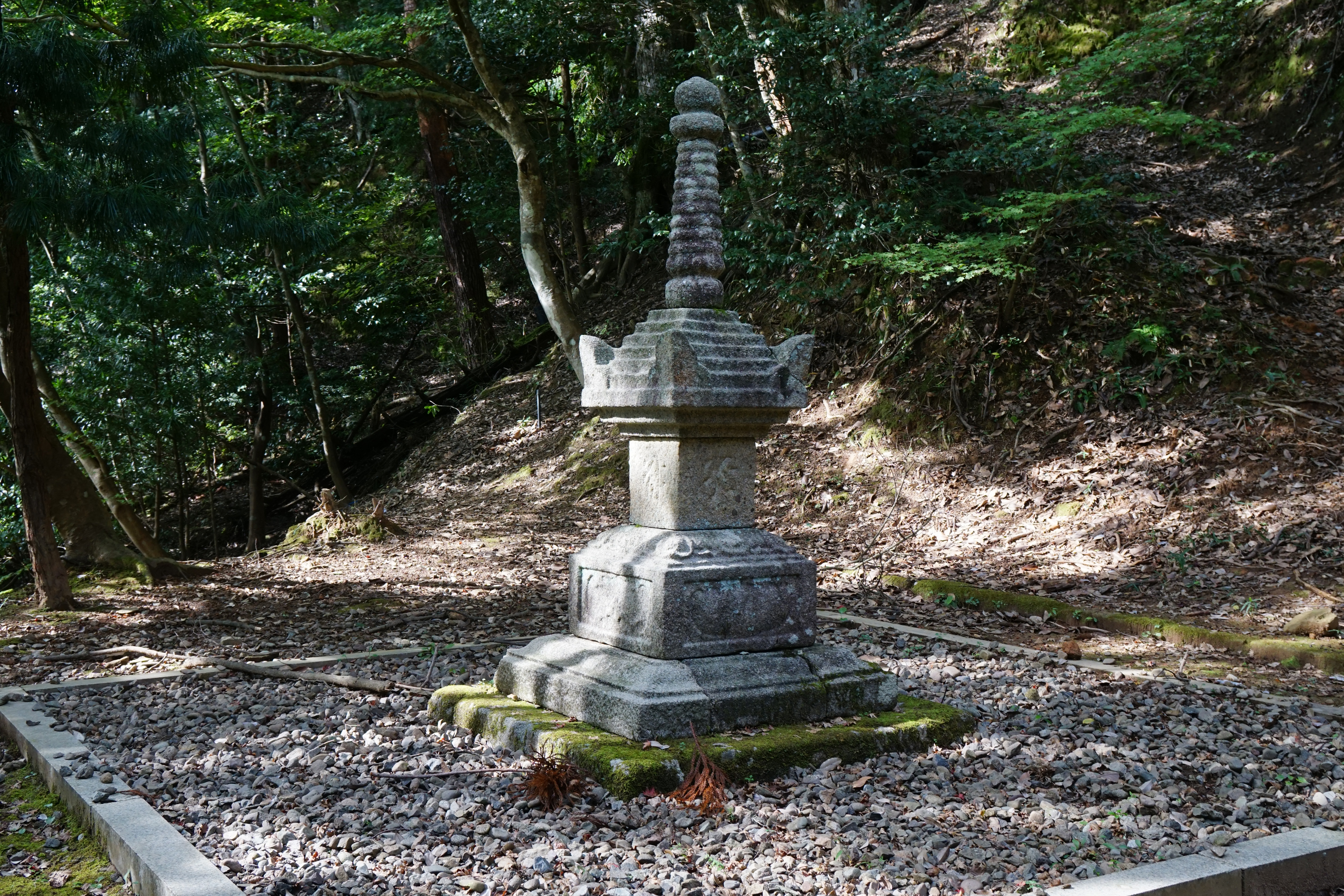 Onsen-ji in Toyooka, Hyogo prefecture, Japan.